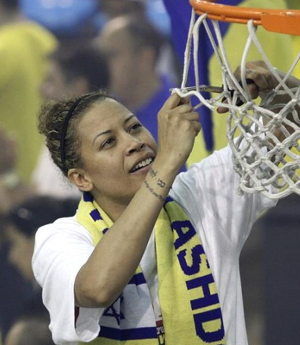 Brasheedah Elohim, wearing the Maccabi Bnot Ashdod uniform, cuts the net after winning the championship.